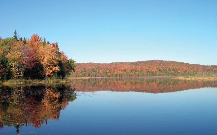 Photo: Katherine Whittemore, USFWS